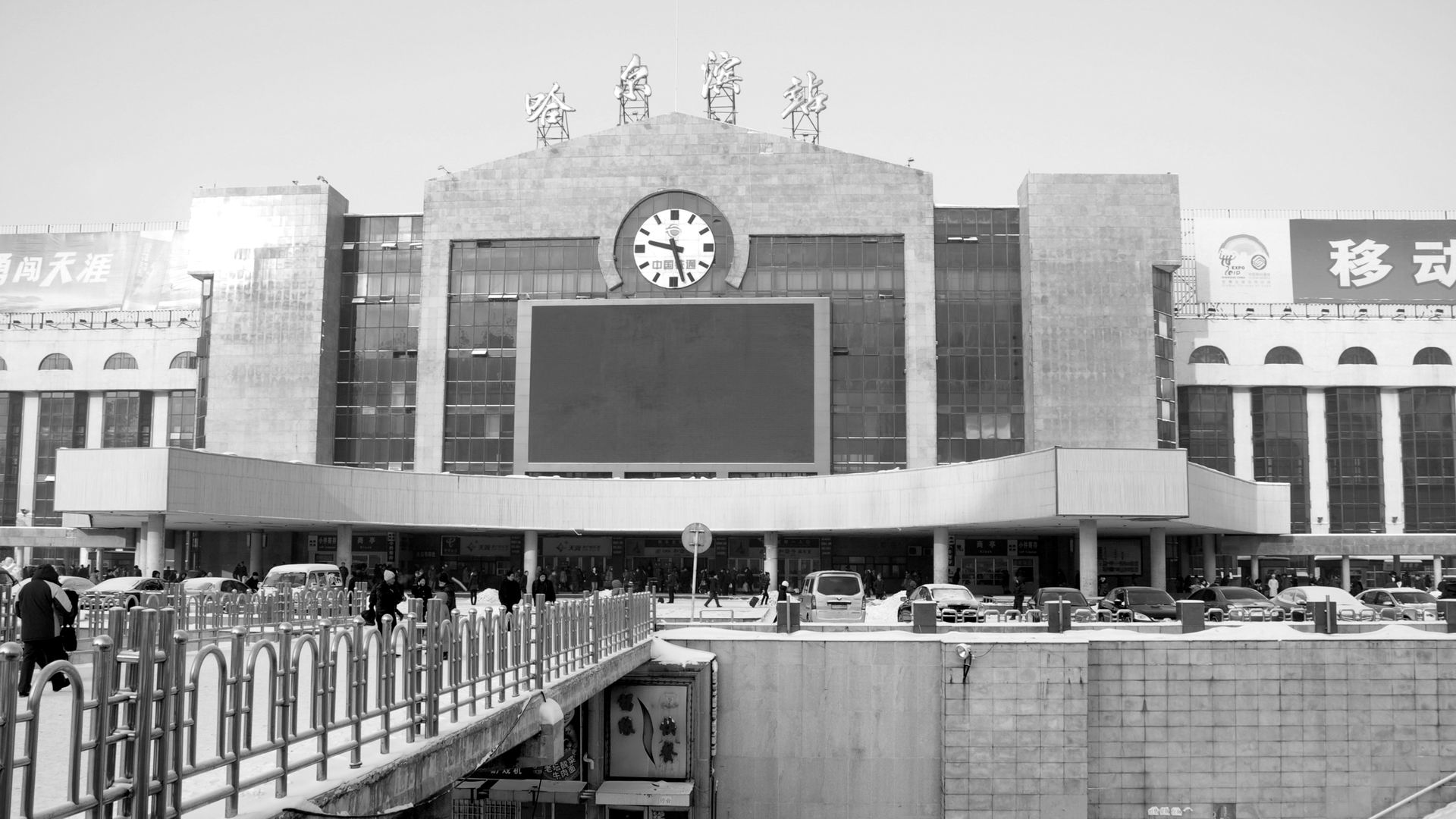 Harbin Railway Station 2010